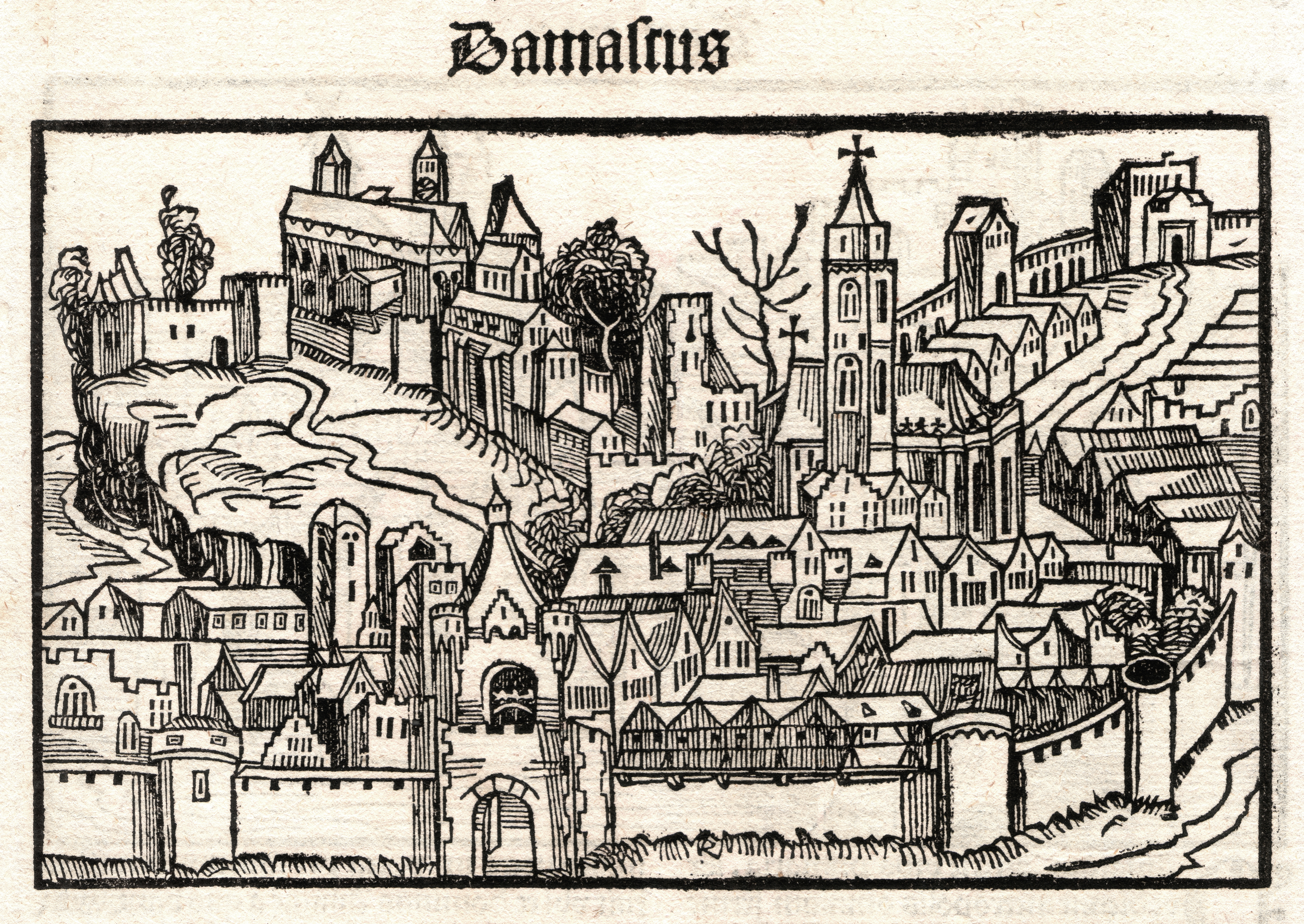 View of Damascus in Schedel's World History, woodcut by Michael Wolgemut, printed in the very rare pirated edition of 1497 by Johann Schönsperger in Augsburg. Size: 142 mm x 88 mm. The Other Nuremberg Chronicle